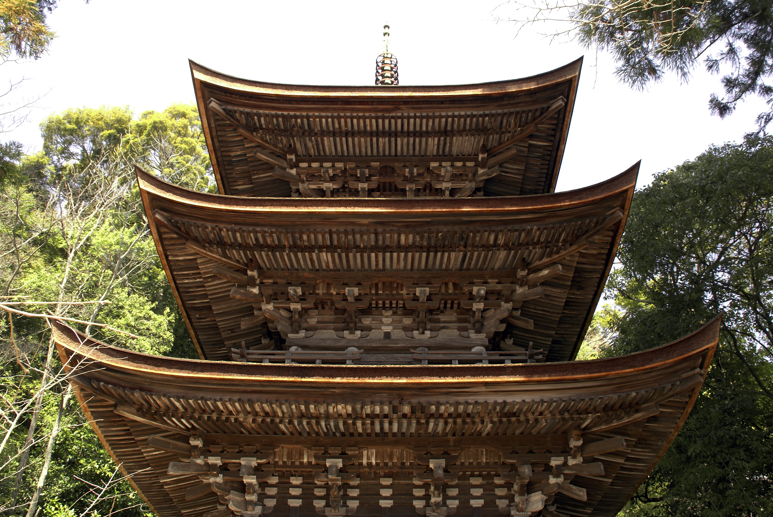 Rokujo_hachiman-jinja's Pagoda is Japan's Important Cultural Property in Kobe, Hyogo prefecture, Japan